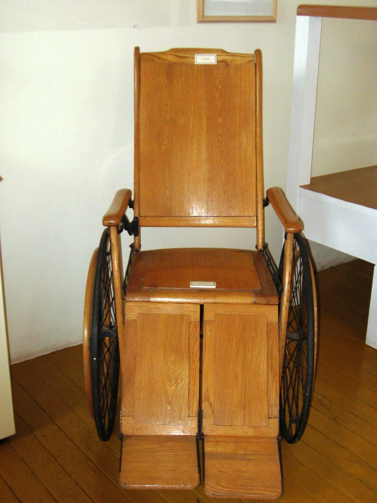 Wooden wheelchair dating to the early part of the 20th century on display at the Ex Hospital Minero-Museo de Medicina Laboral located in Real del Monte Hidalgo State Mexico